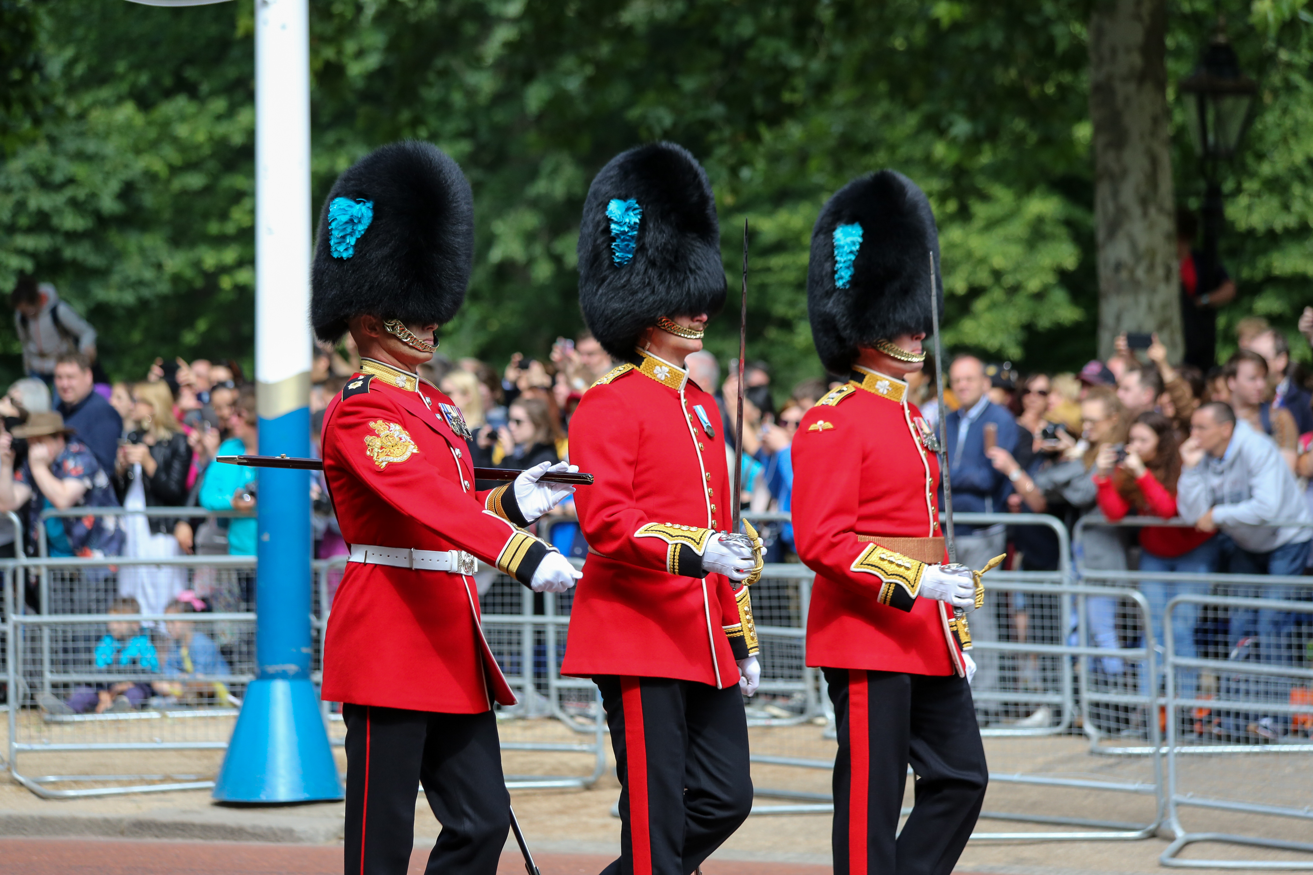 Regimental Sergeant Major Warrant Officer Class 1 A J Purcell, Adjutant Captain O G Rostron, and Lieutenant Colonel J A E Palmer of the 1st Battalion Irish Guards who was Commanding Officer of the troops lining The Mall during the 2018 Trooping the Colour.